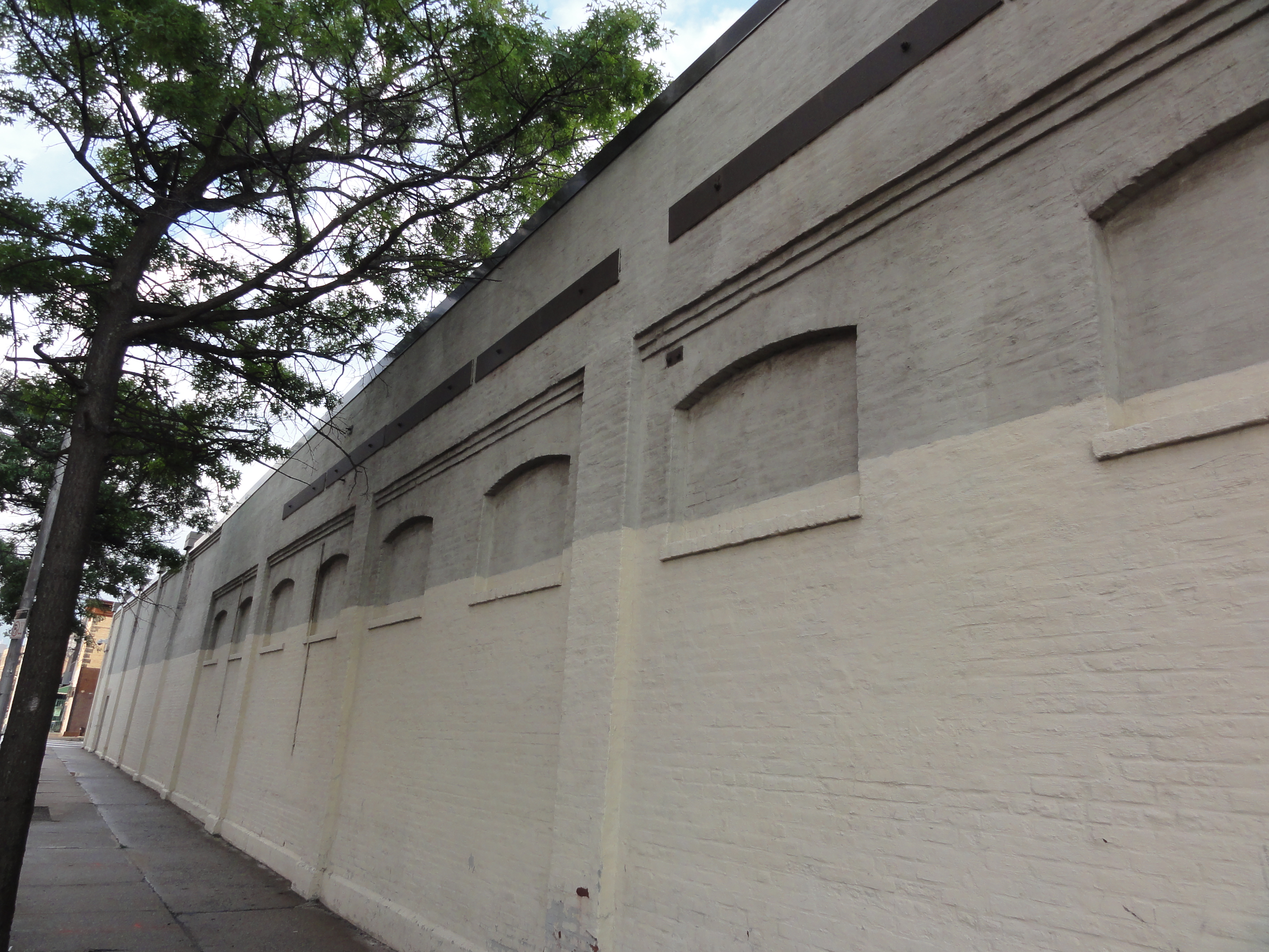 A remaining wall of Washington Park in Brooklyn, NY, former home of the Brooklyn Dodgers.